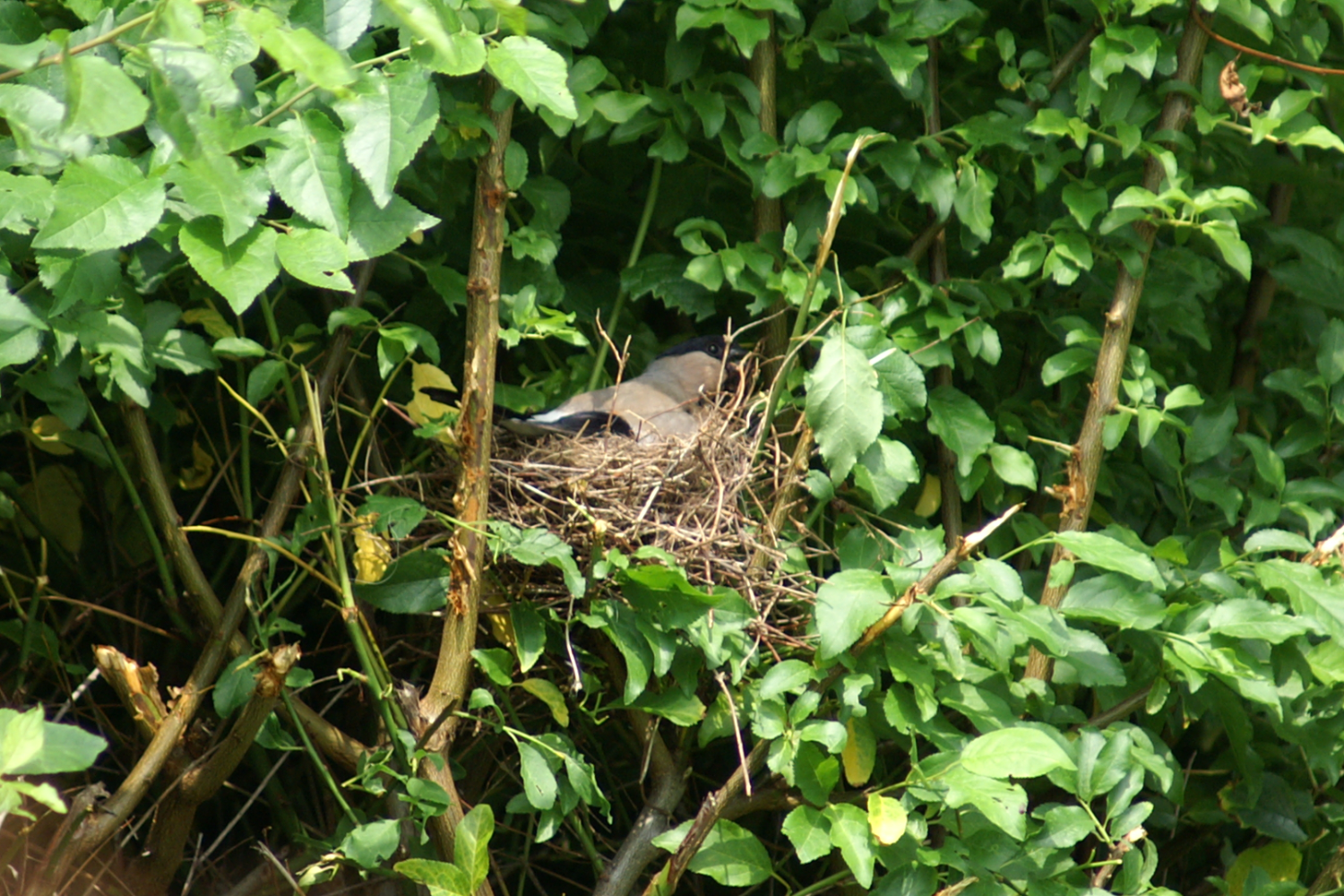 Breeding female Eurasian bullfinch (Pyrrhula pyrrhula)